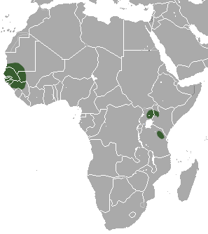 Savanna Dwarf Shrew (Crocidura nanilla) range